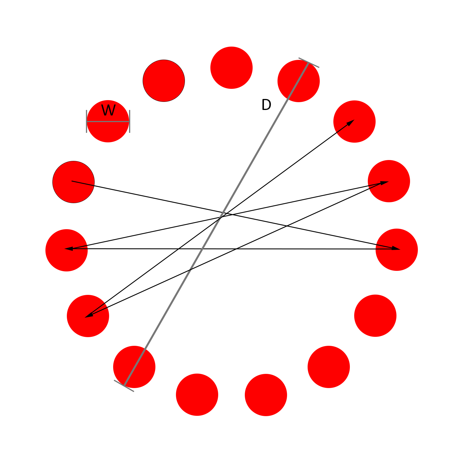 2D reciprocal tapping Task for Fitts' Law evaluation